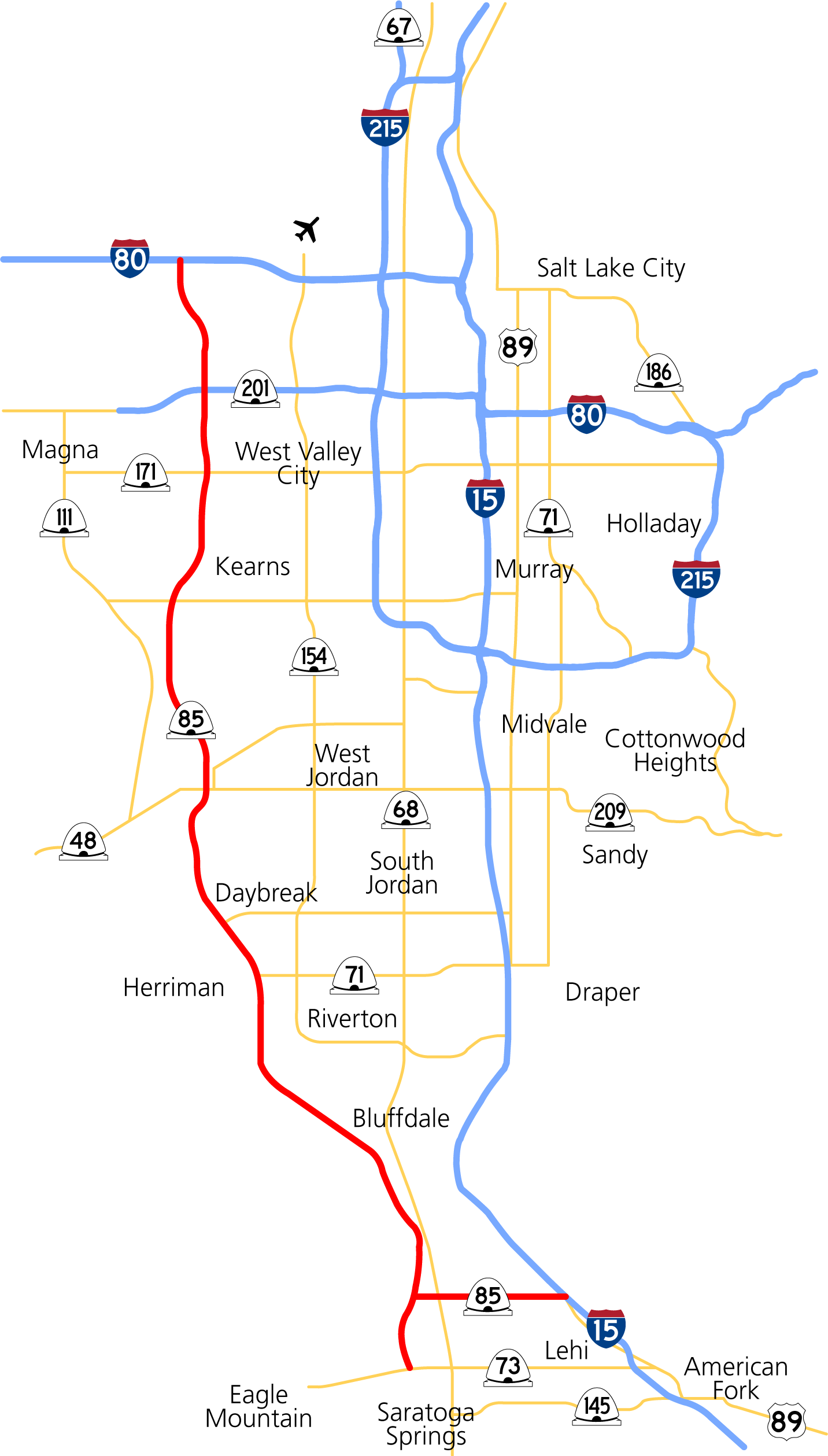 Mountain View at full build-out.